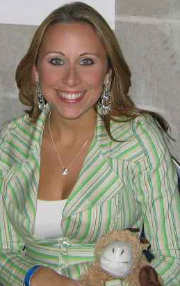 Picture taken at American Idol auditions on September 11th 2005, just after Melissa McGhee made it to the second round of auditions.